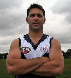 chris johnson in avondale colours